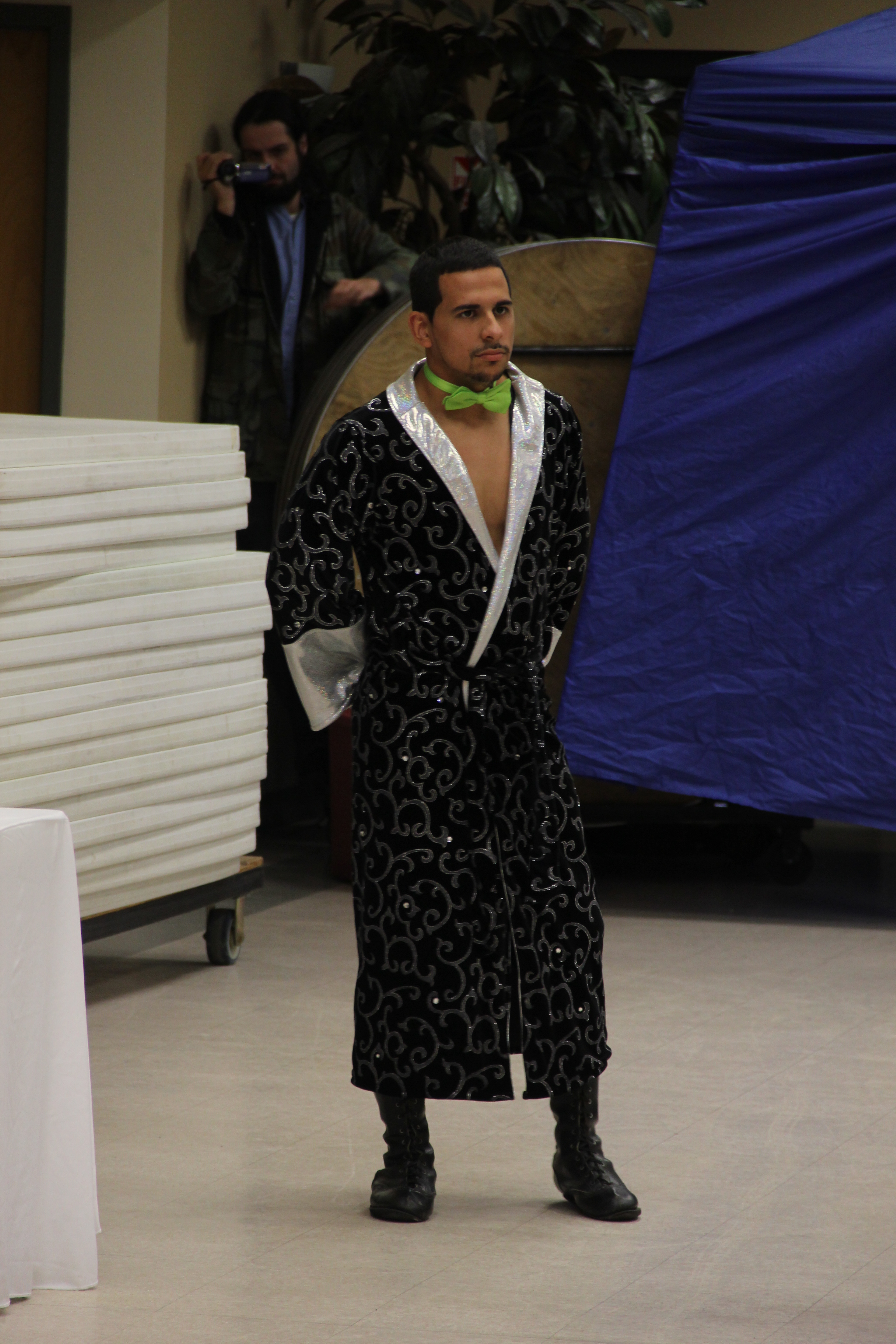 pro wrestler